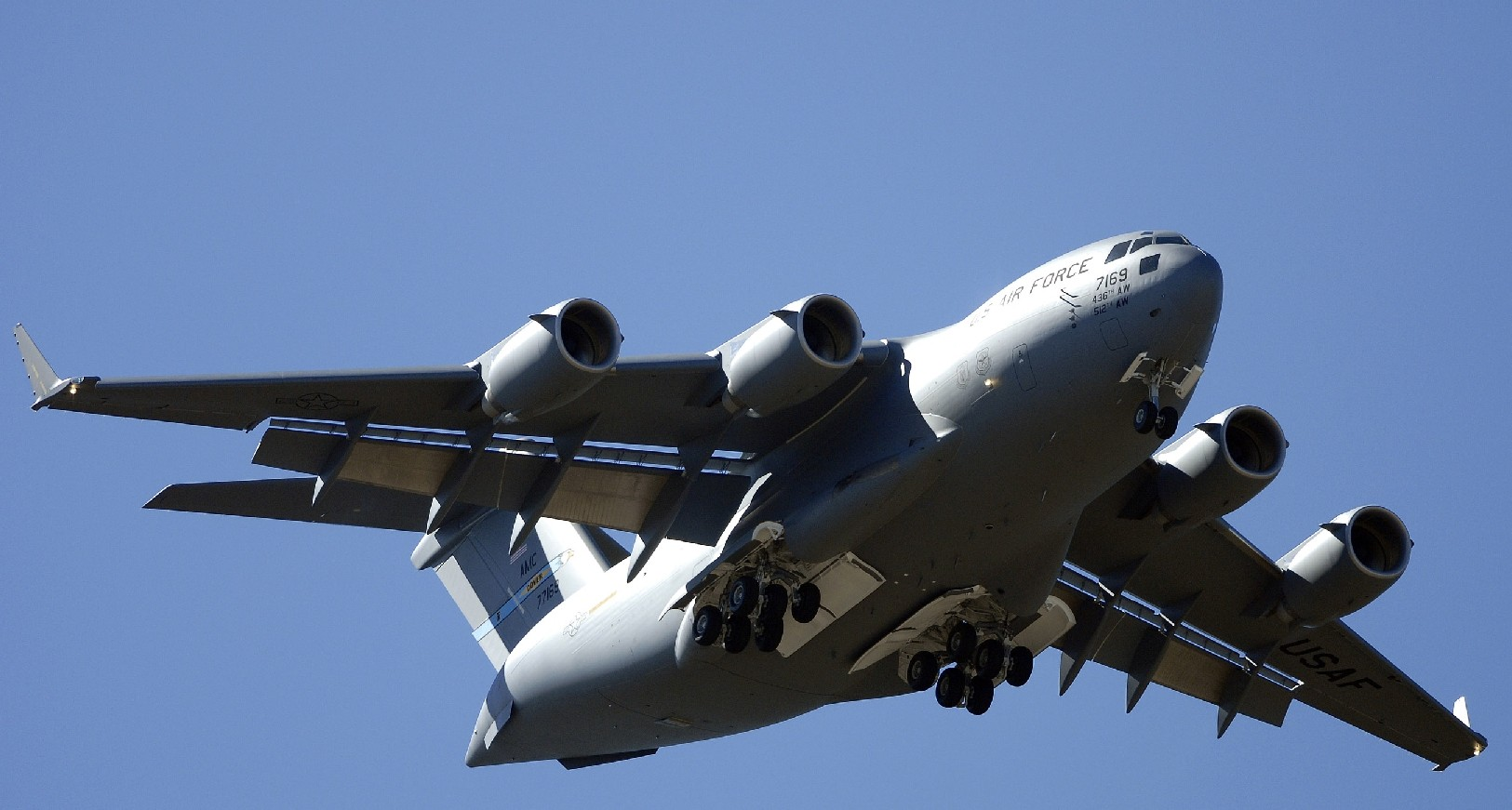 Commandant of cadets flies new C-17 Globemaster III home: Brig. Gen. Susan Y. Desjardins flies a newly accepted C-17A Globemaster III over the U.S. Air Force Academy cadet area Oct. 2 in Colorado Springs, Colorado General Desjardins accepted the aircraft into the United States Air Force's inventory at Boeing's facilities in Long Beach, California, and flew it from the Boeing facility to its new duty station with the 436th Airlift Wing at Dover Air Force Base, Delaware.